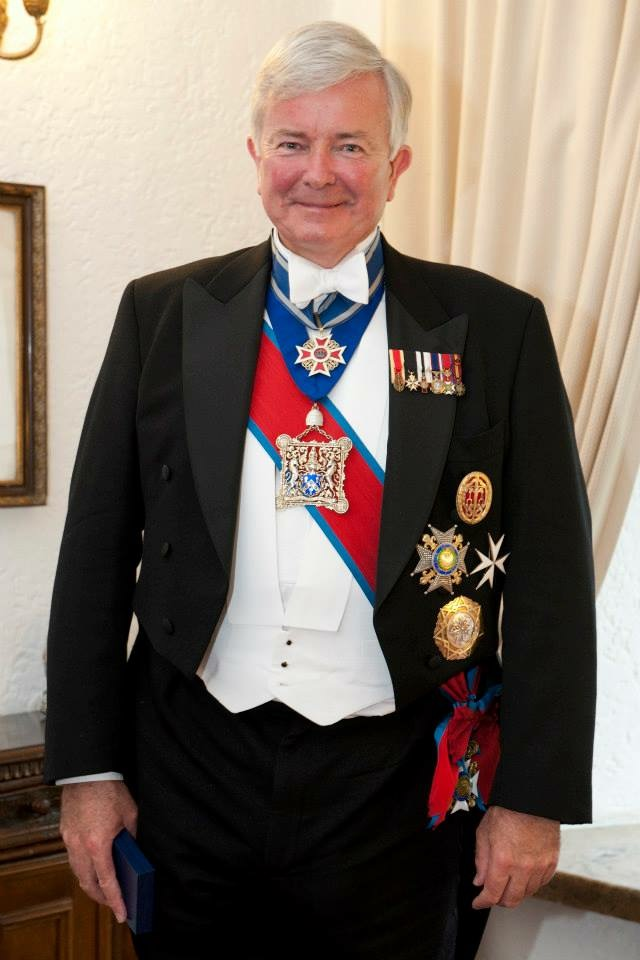 Official photograph of Sir Gavyn Farr Arthur